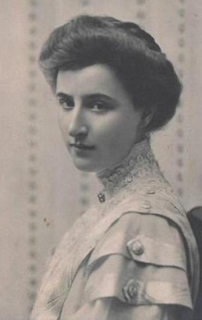 Portrait Feodora of Saxe-Meiningen (1890–1972), Grand Duchess of Saxe-Weimar